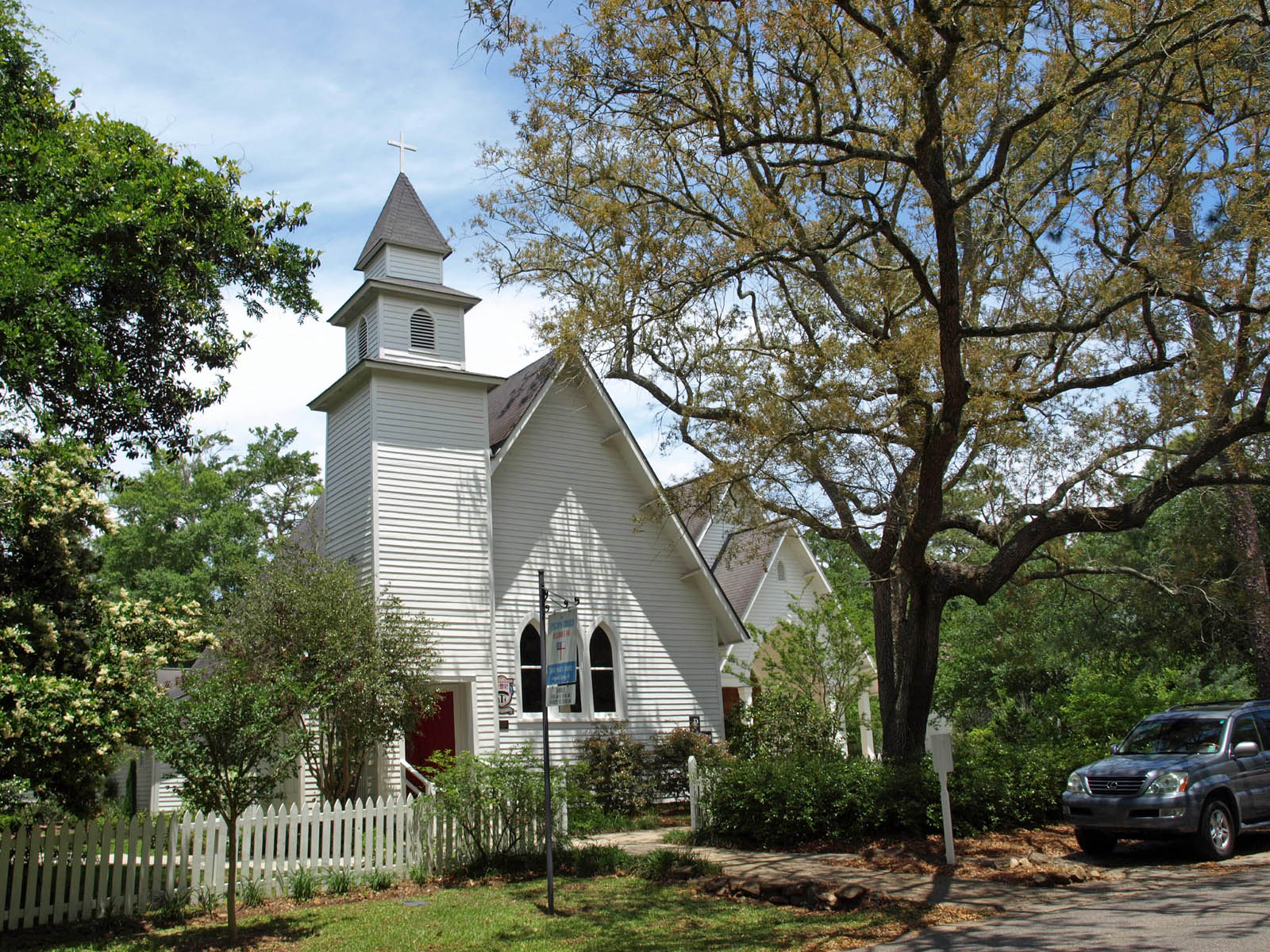 St. Paul's Episcopal Church in Magnolia Springs, Alabama, listed on the National Register of Historic Places